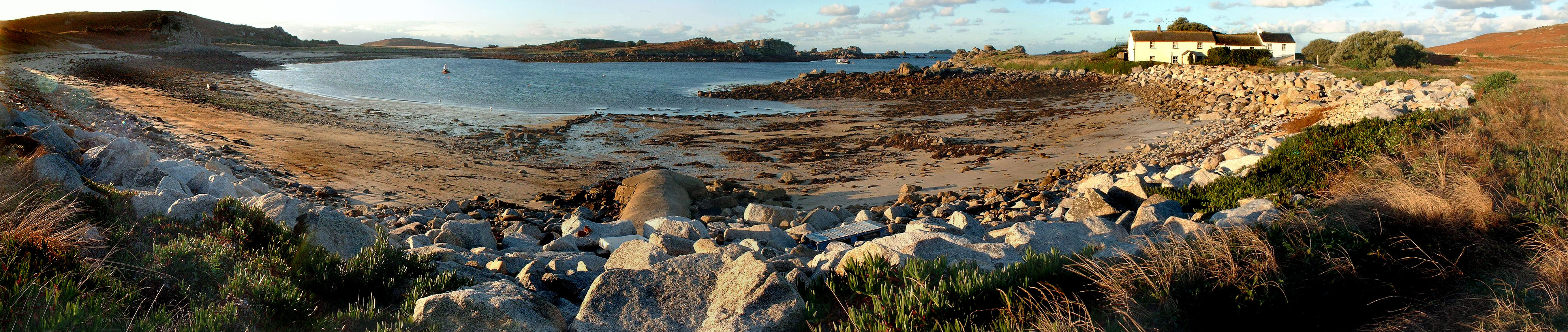 Great Porth, Bryher, Isles of Scilly. Panorama photo by Hugh Mason